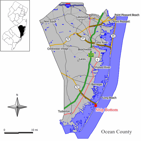 Source: Jim Irwin Original work by Jim Irwin, December 2005.